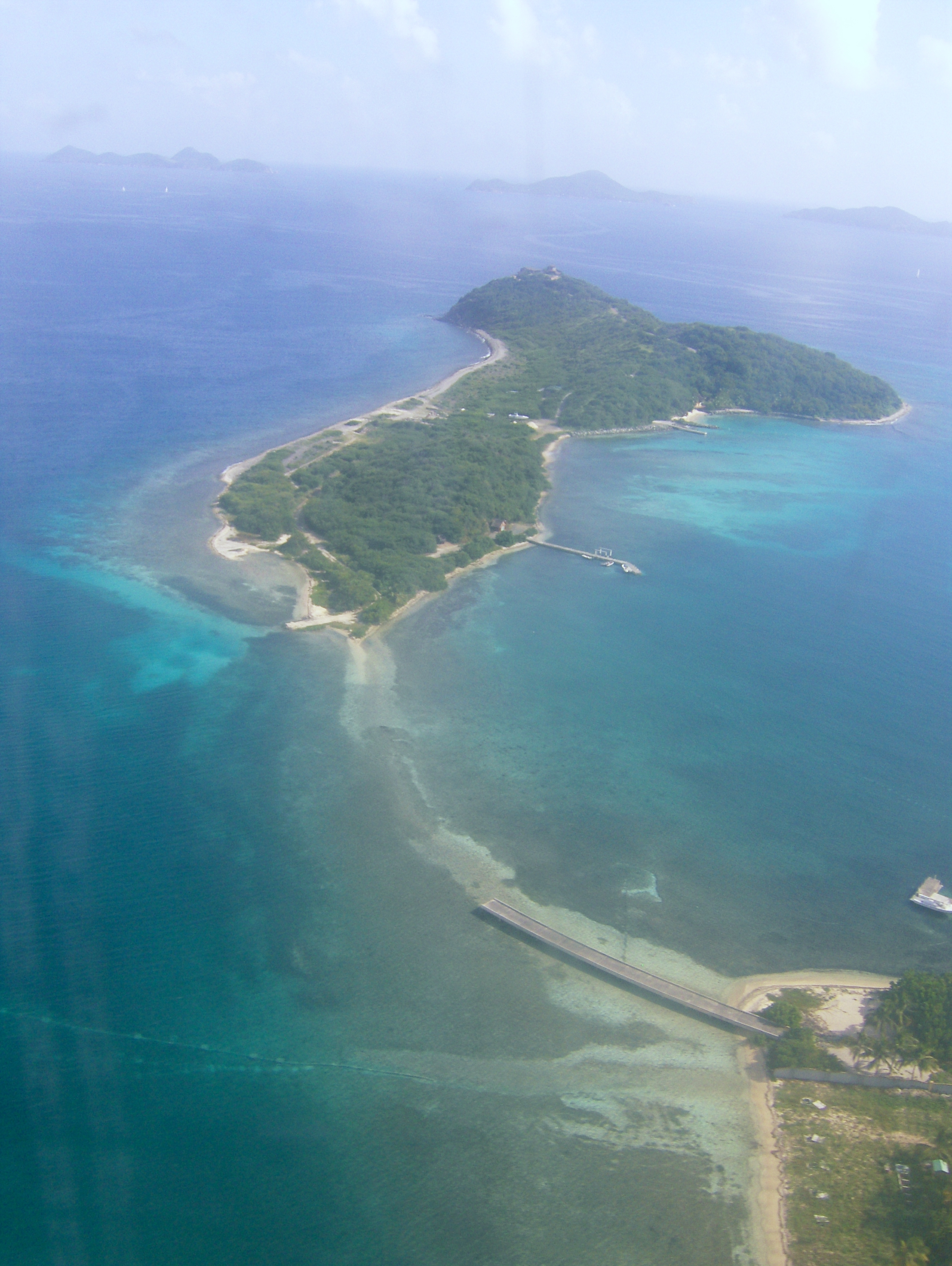 Some Virgin Island (Buck Island (British Virgin Islands)), as seen from the plane from San Juan to Tortola.